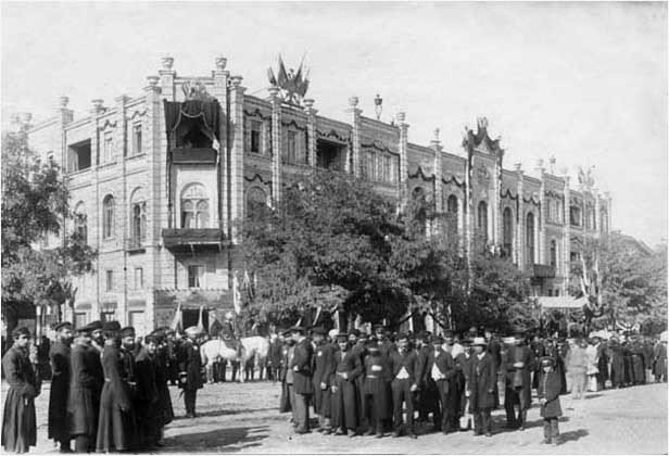 Avenue of Golovin. During the visit of Emperor Alexander III. 1888